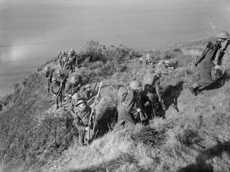 The British Army in the United Kingdom 1939-1945 Men of the 2nd London Irish Rifles advancing with fixed bayonets after climbing up the cliffs during training at Little Haven near Haverfordwest.